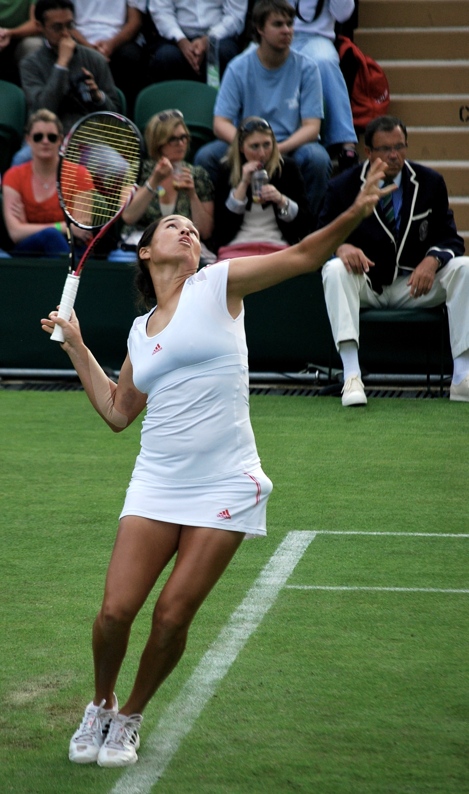 Jamie Lee Hampton during her first round match with Daniela Hantuchova Jamie won 6-4, 7-6, but was beaten by Heather Watson in the next round. Day 1 of Wimbledon 2012.